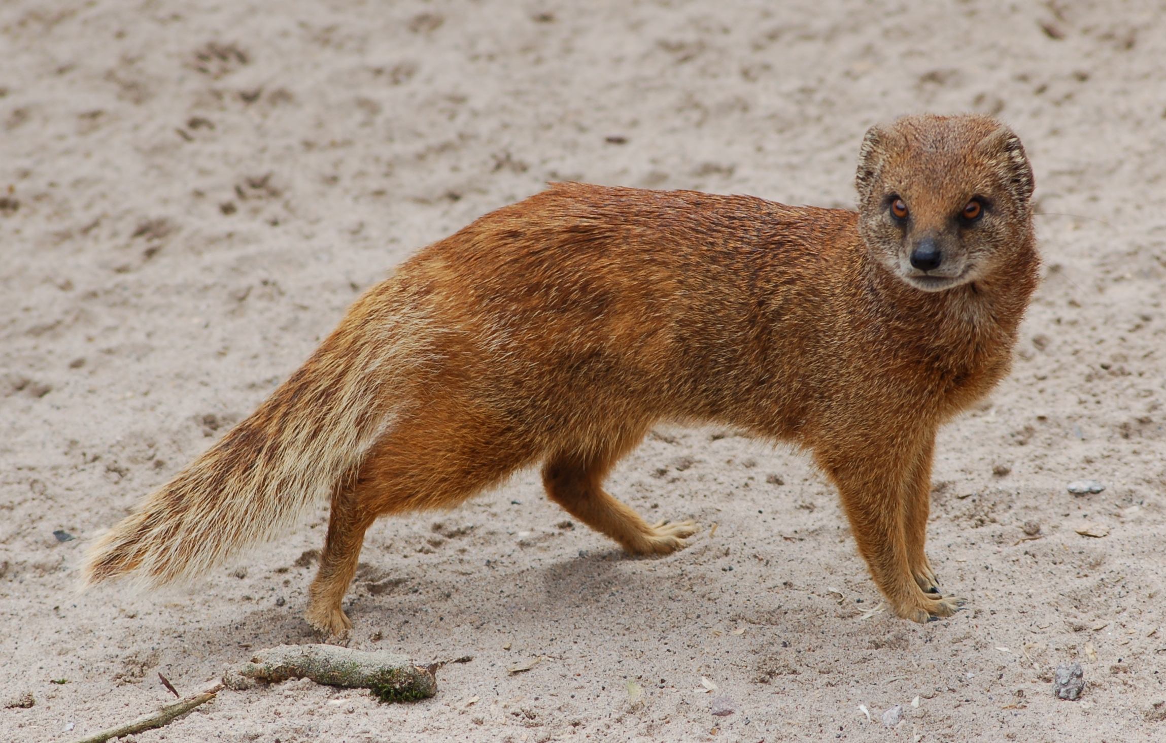 Photo of a yellow mongoose (Cynictis penicillata)